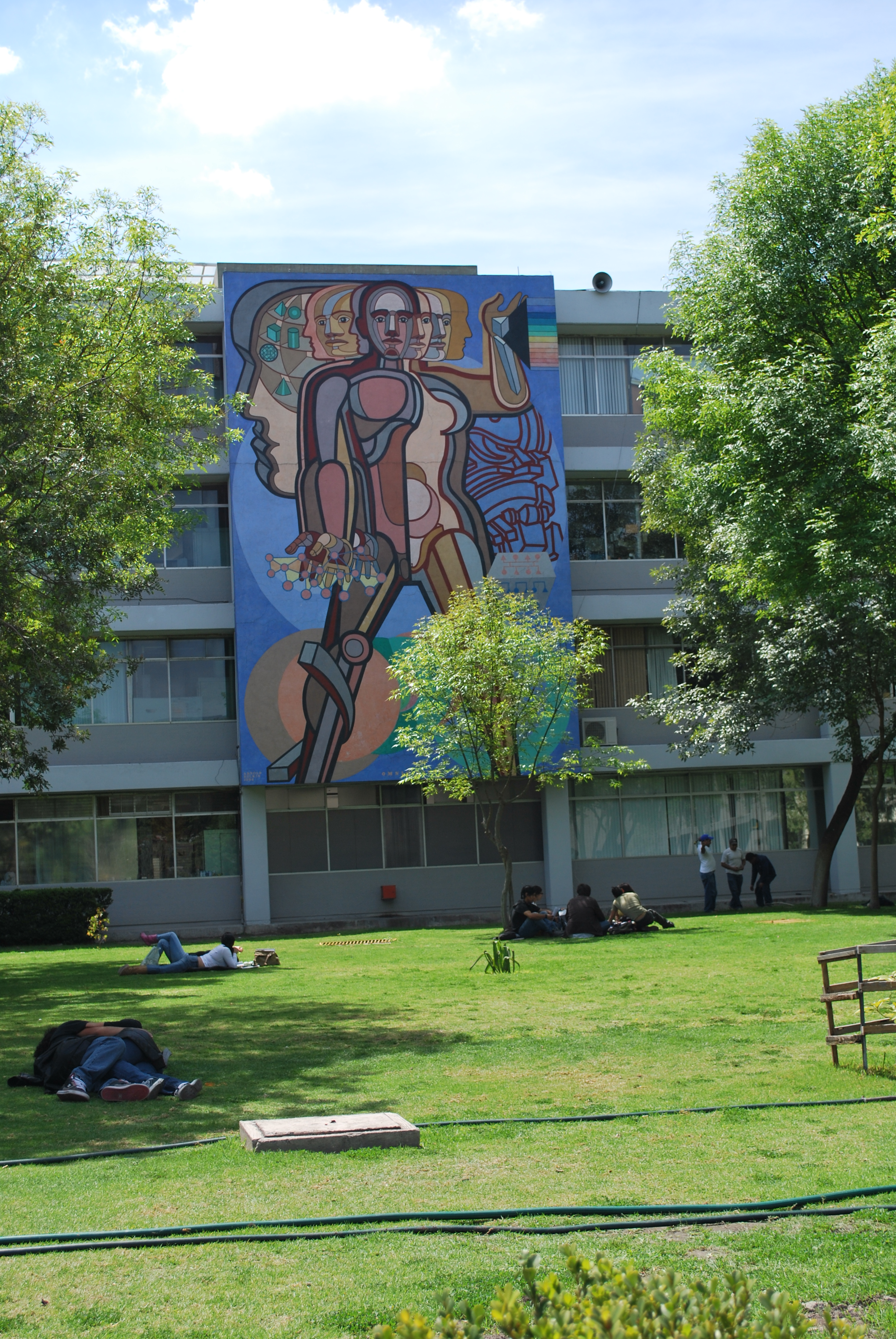 Mural on one of the buildings at UAM-Iztapalapa, Mexico City